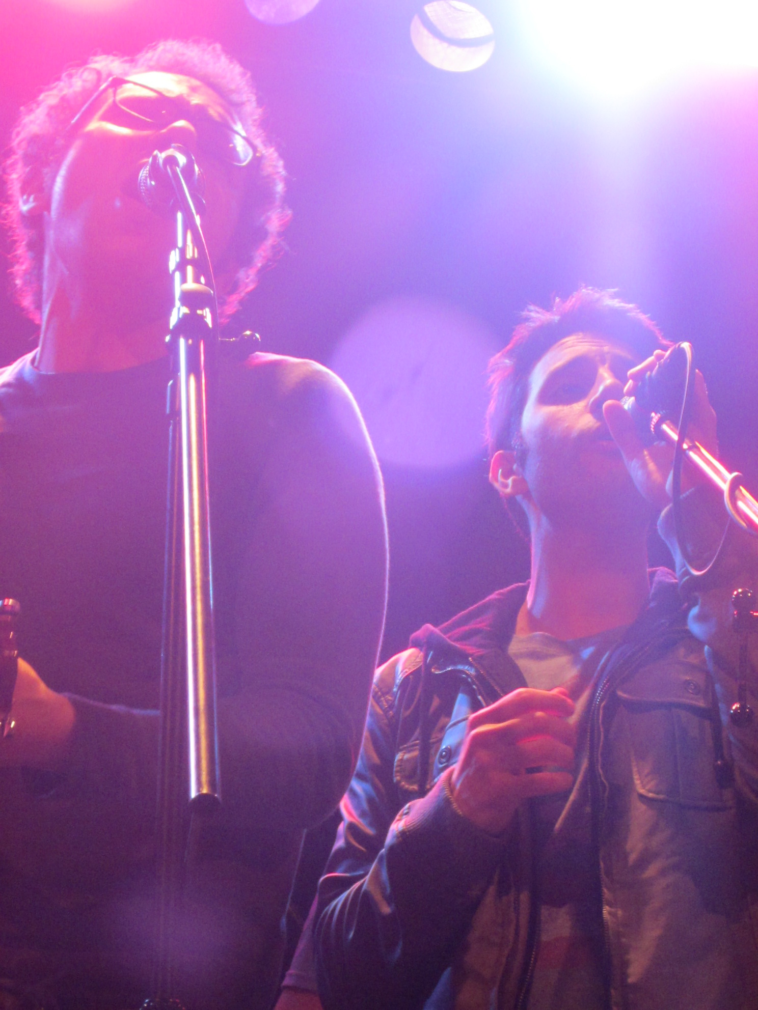 Ian Axel and Chad Vaccarino perform at Bowery Ballroom in NYC.